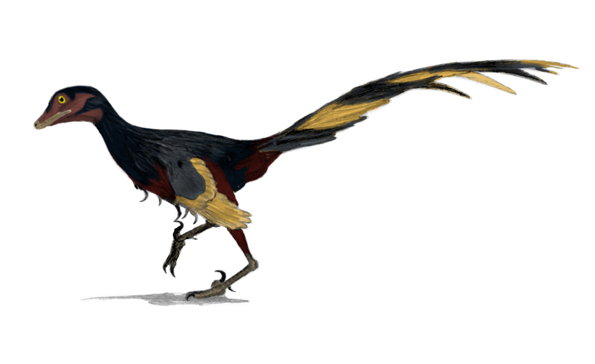 Life restoration (graphite) of Jinfengopteryx elegans.